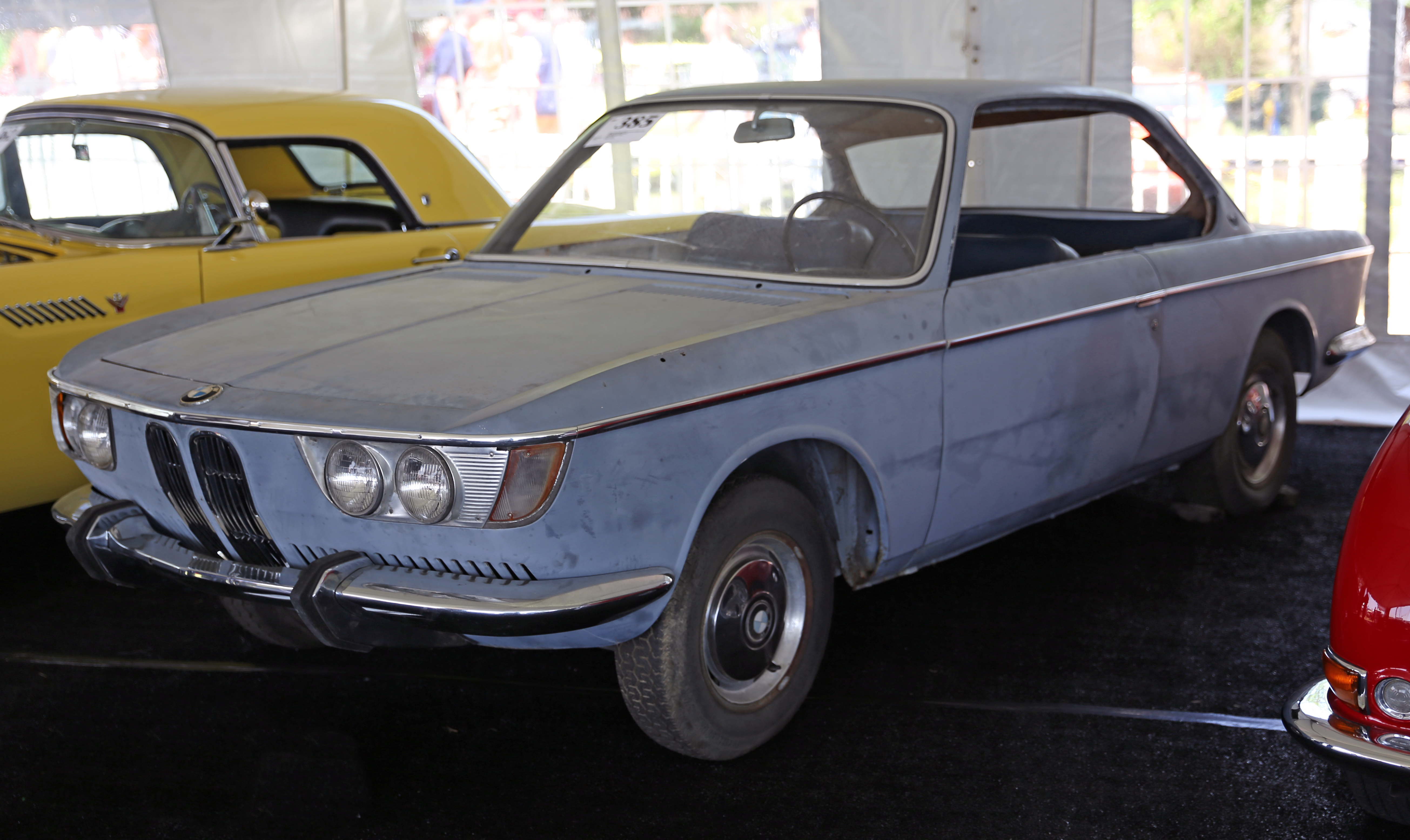 1968 BMW 2000 CA at the Bonhams auction attached to the 2013 Greenwich Concours d'Elegance. 100hp, automatic transmission, rare original federalized model with sealed-beam headlamps.